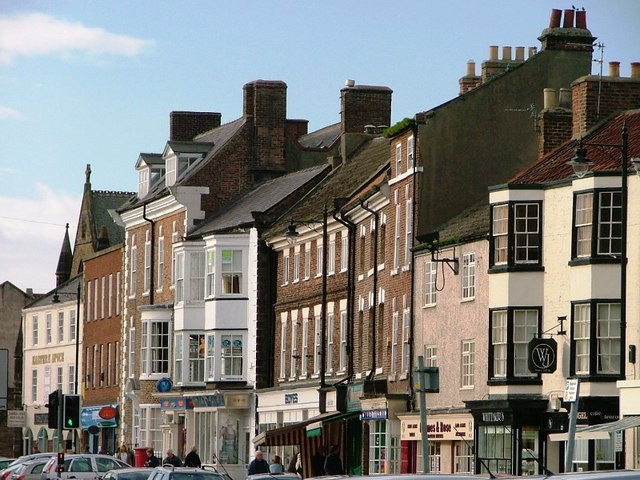 High Street, Stokesley